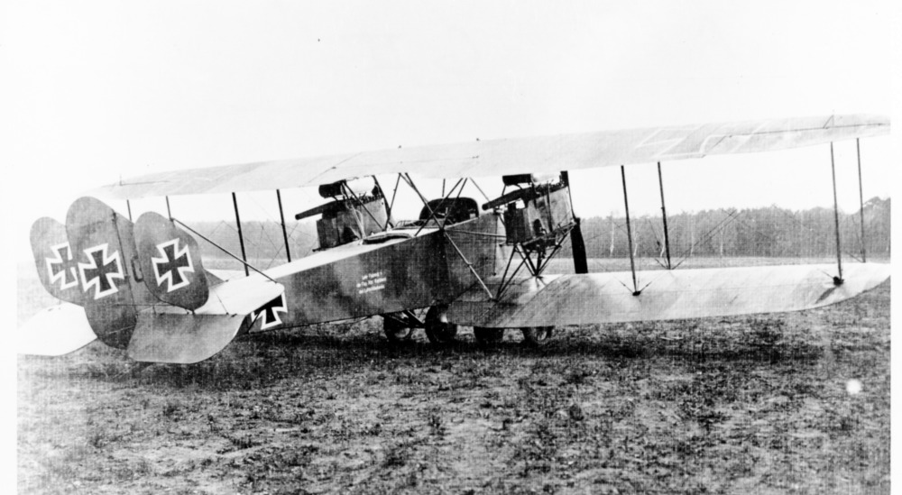 AEG G.II with triple tail